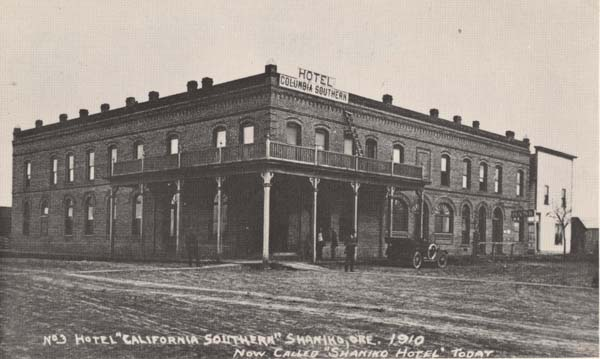 Historic photo of the Columbia Southern Hotel in Shaniko, Oregon, United States, in 1910. Photo is mislabelled as the "California Southern" Hotel. The hotel is today listed on the US National Register of Historic Places.